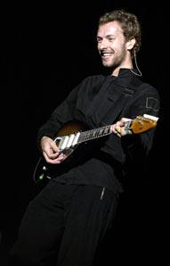 Chris Martin from the band Coldplay.